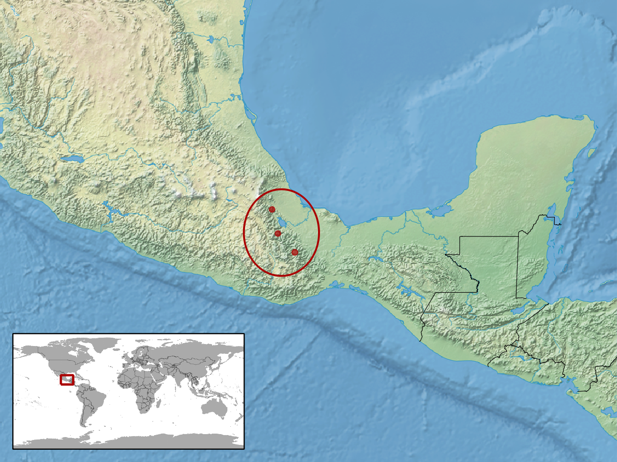 geographic distribution of Chersodromus liebmanni (Native: Mexico)